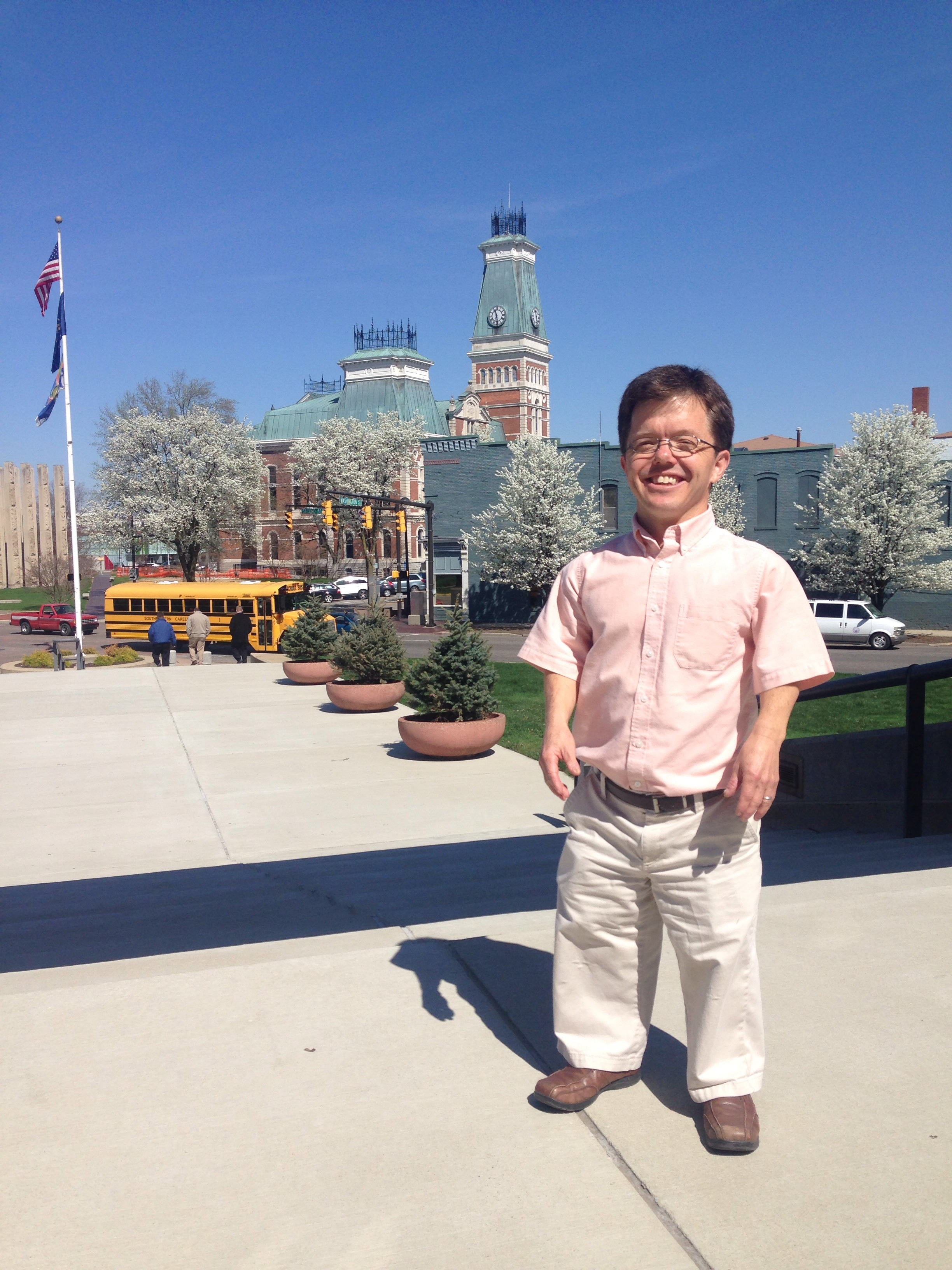 This is an image of Ethan Crough, a man with dwarfism who lives in Columbus, Indiana. This photo was taken as a way to capture a contemporary image of dwarfism.